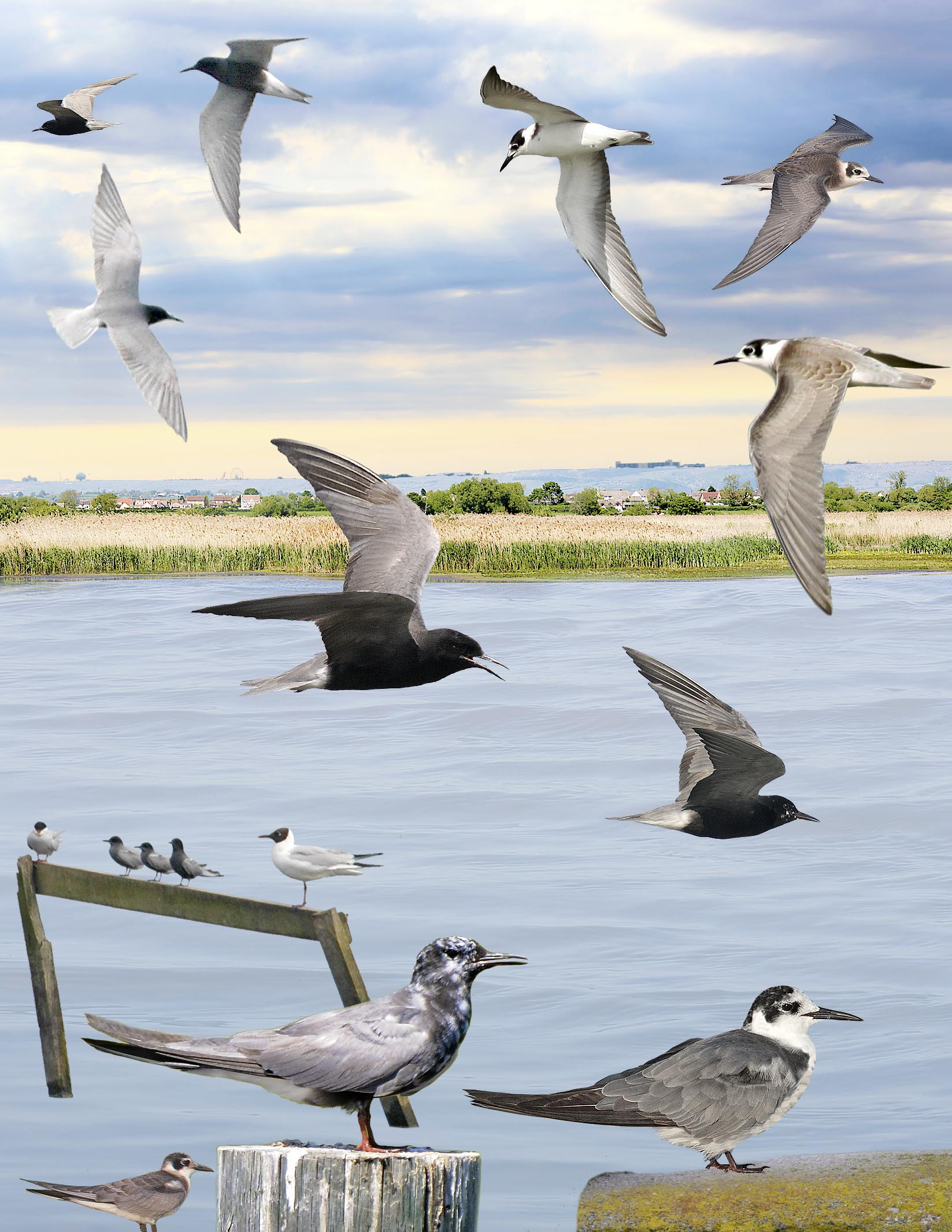 Black Tern from the Crossley ID Guide Britain and Ireland